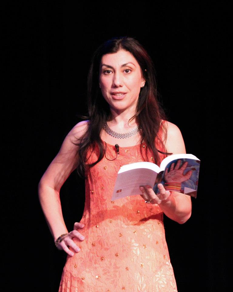 Oksana Marafioti reading an excerpt from her book, American Gypsy, at the book launch of American Gypsy.